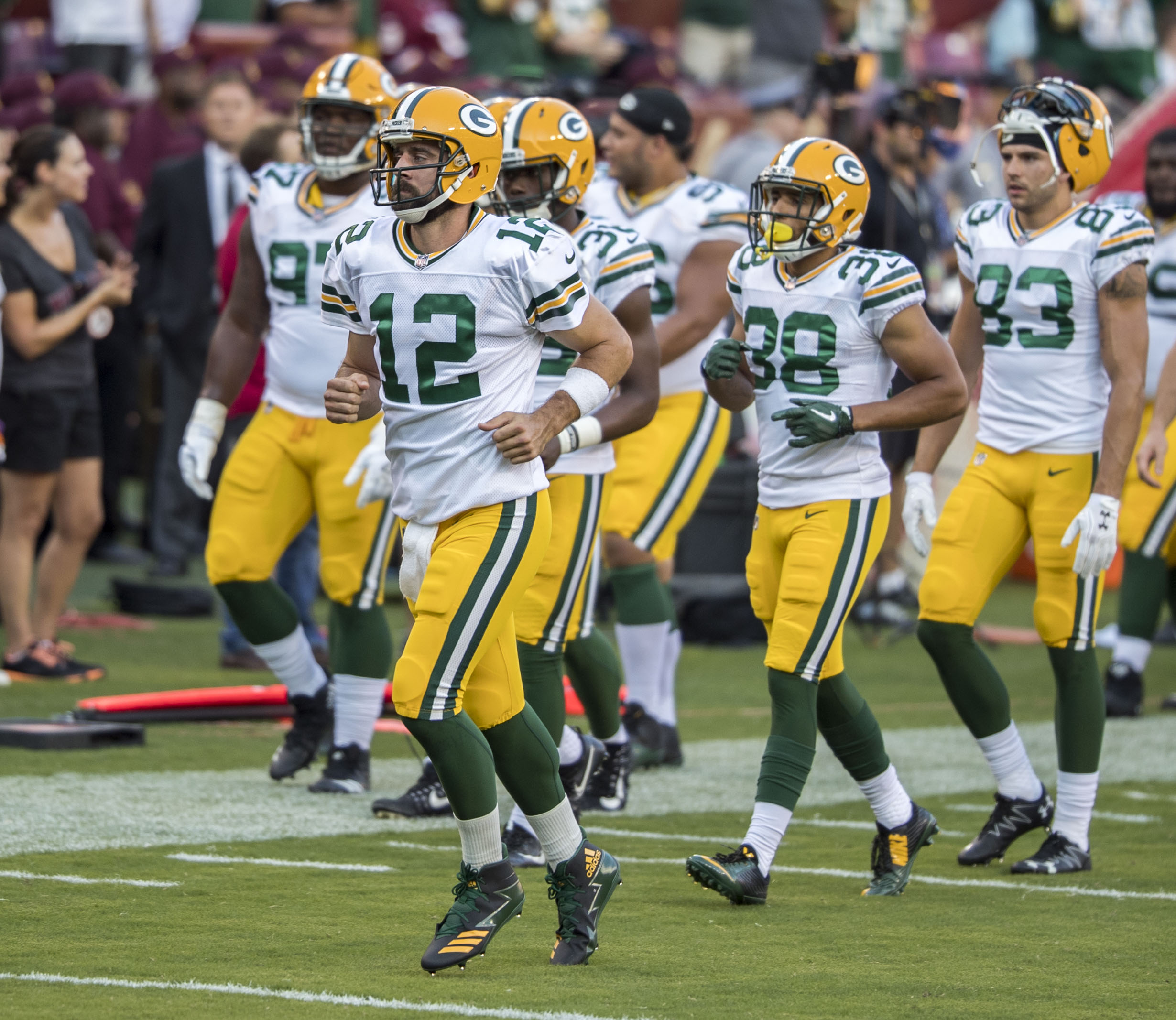 Quarterback Aaron Rodgers of the Green Bay Packers during a game against the Washington Redskins at FedExField on August 19, 2017 in Landover, Maryland.